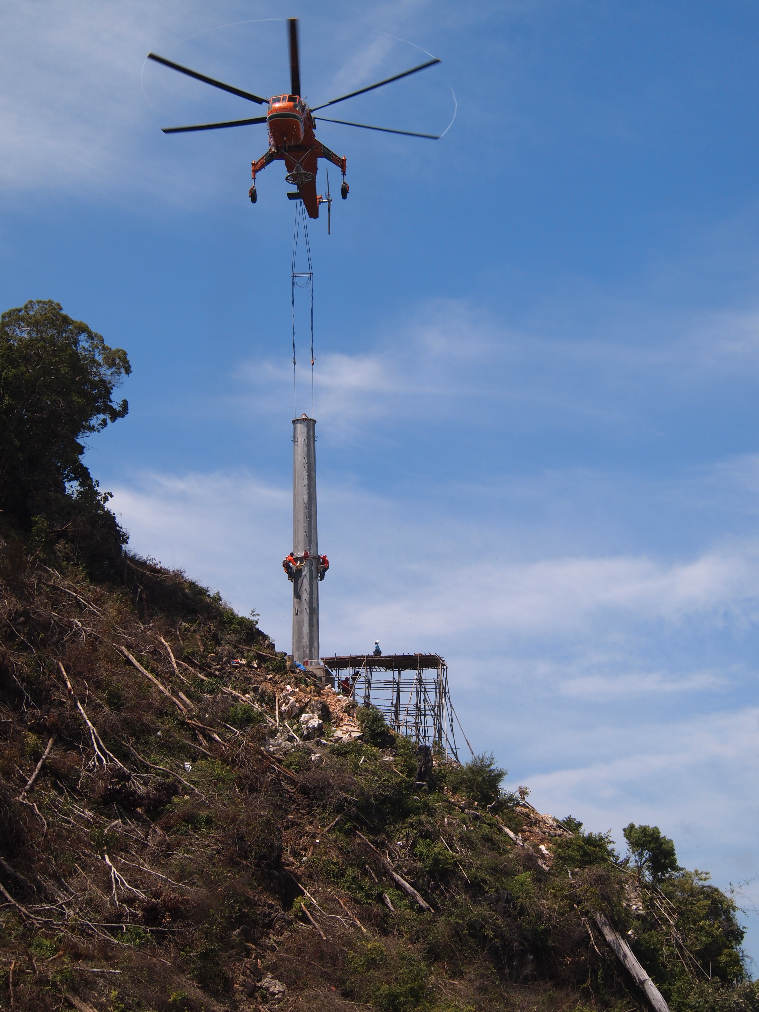 A Sikorsky installing monopole in Langkawi, Malaysia